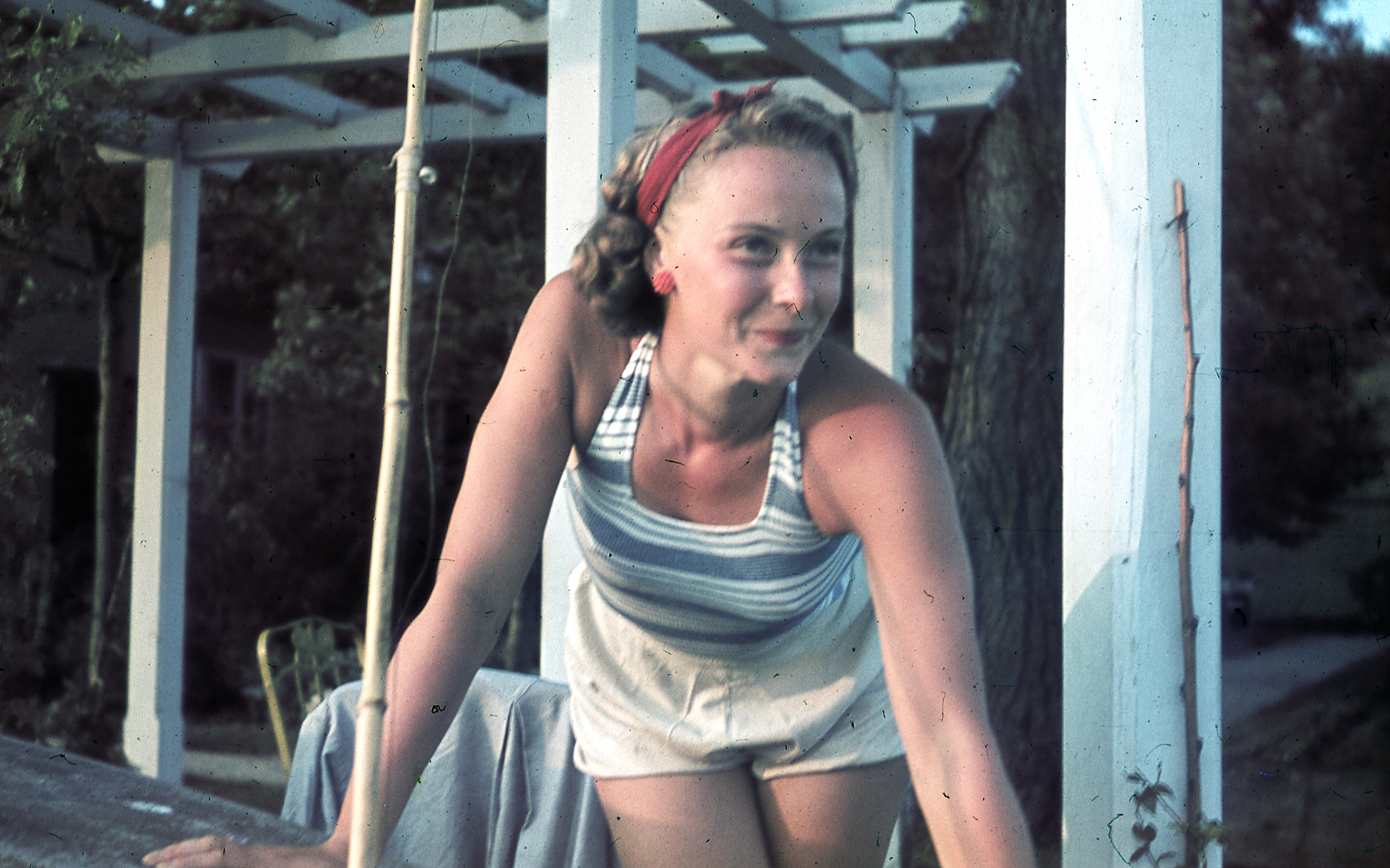 Hungary, Agfacolor (probably) Tags: colorful, portrait, woman